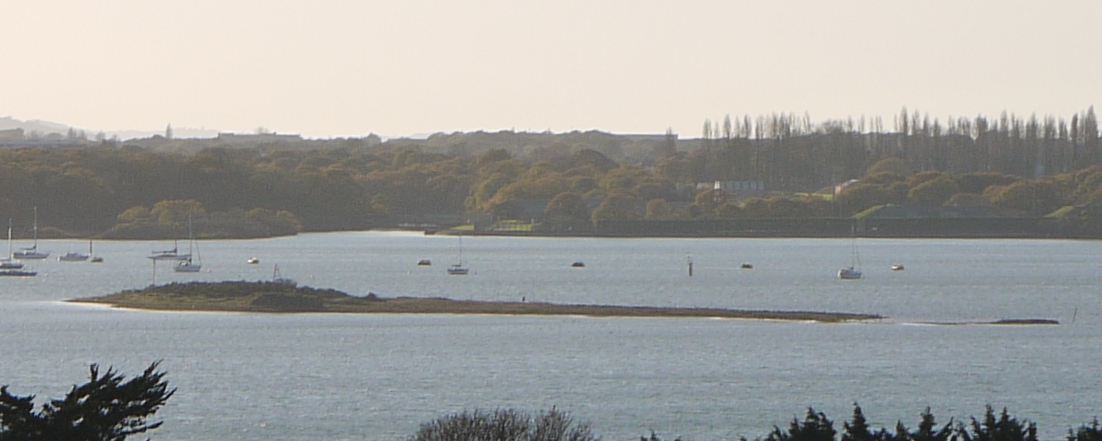 Photo of Pewit island from the top of Portchester Castle keep